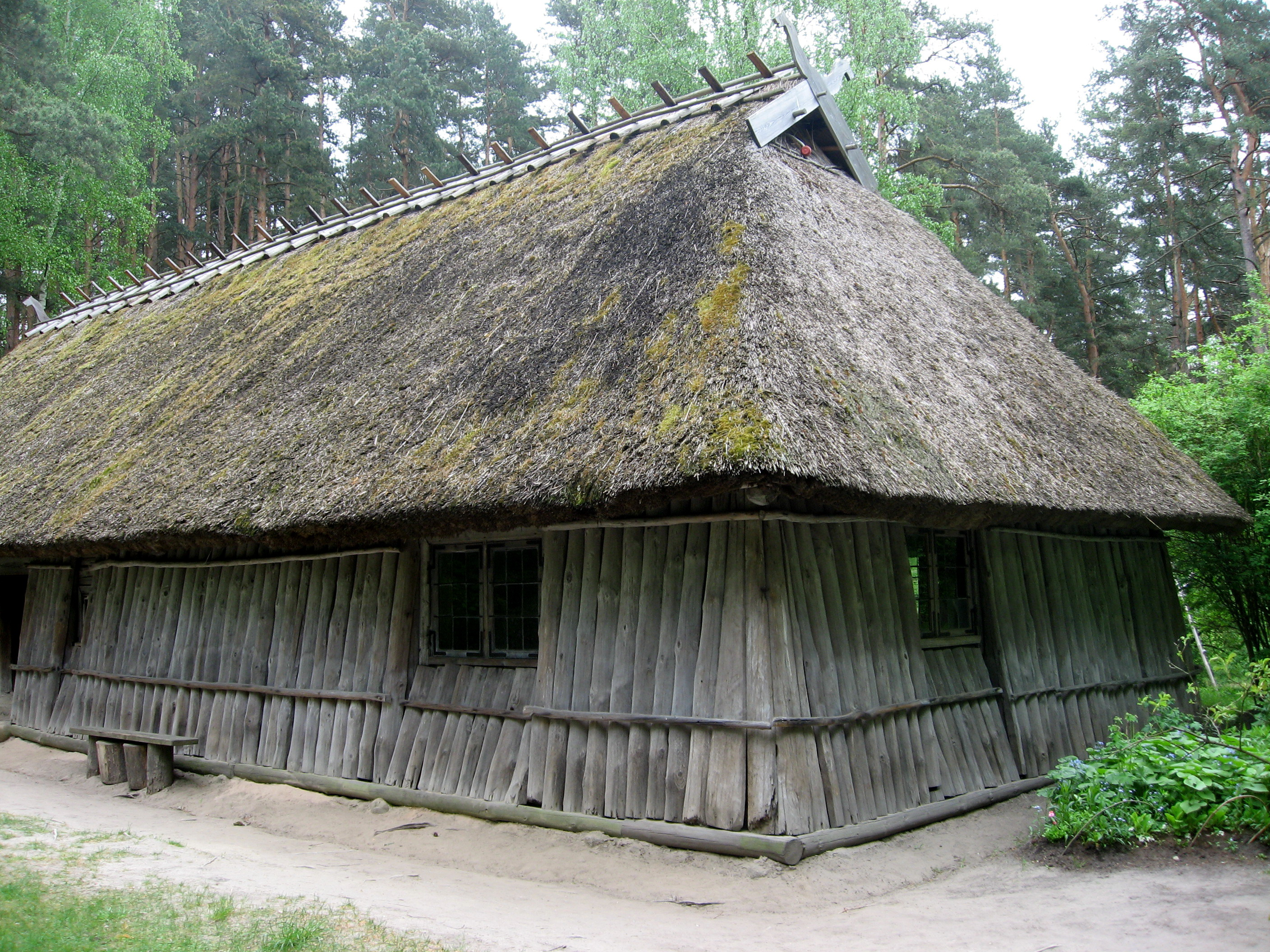 Latvian Ethnographic Museum: Fishing dwelling house without a chimney, skin area, Rucava, Nida, "course", built around 1750 (Rough translation by Google Translate)